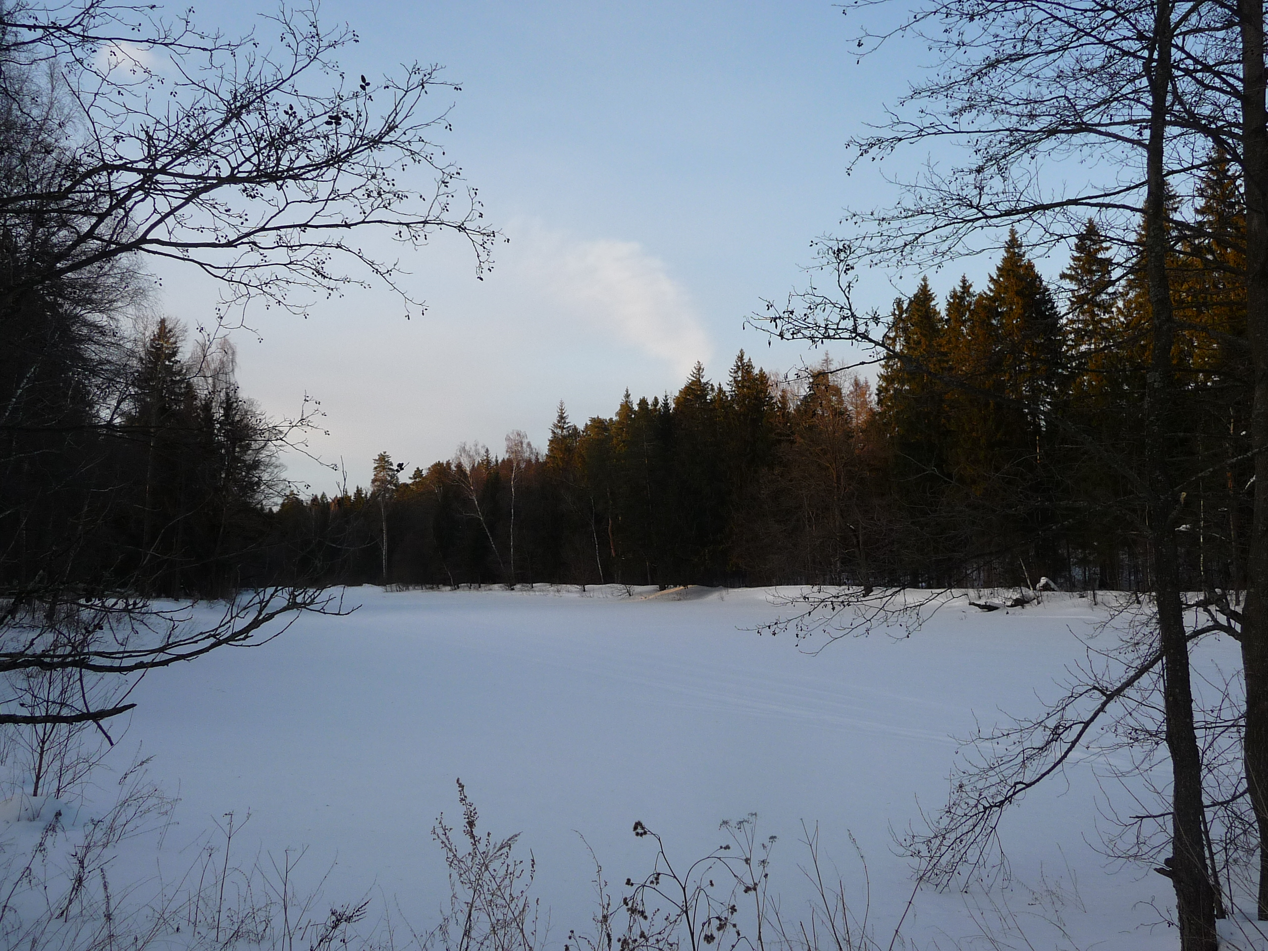 Pound on the Kamshilovka River (tributary of Lyuboseyevka River) around the village of Kamshilovka, Shchyolkovsky District, Moscow oblast, Russia.